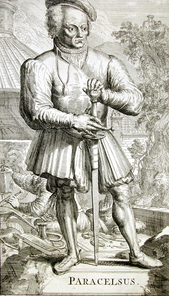 Philippus Theophrastus Aureolus Bombastus von Hohenheim